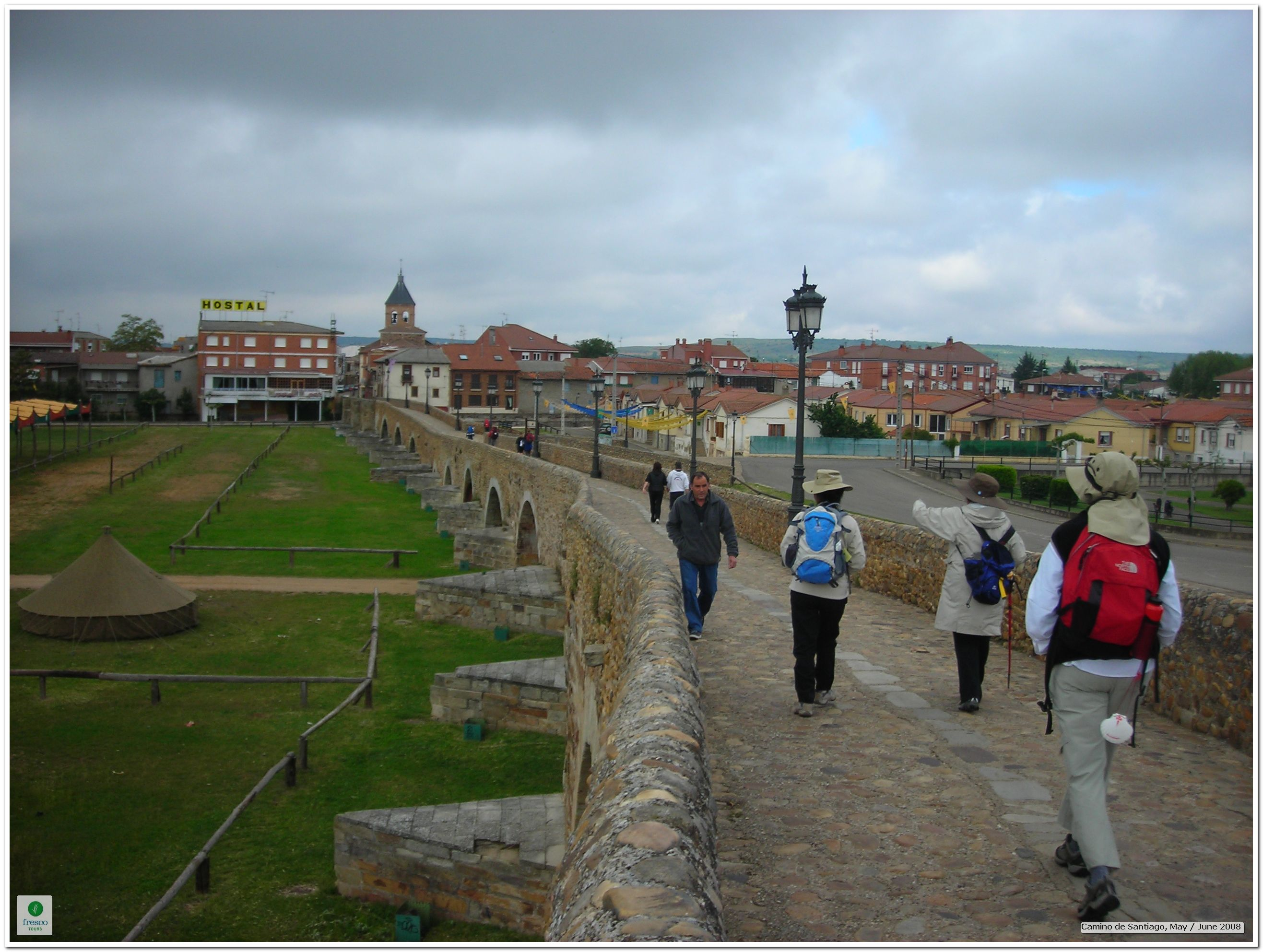 Camino de Santiago Tour. Crossing over the medieval bridge in Hospital and Puente de Orbigo.